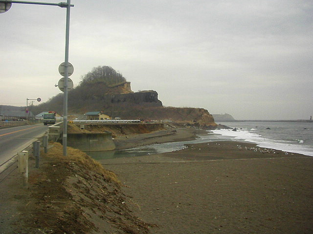 Noboribetsu River. Noboribetsu, Hokkaidō prefecture, Japan.